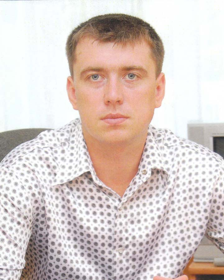 Current Director of School 4 in Dunaivtsi city